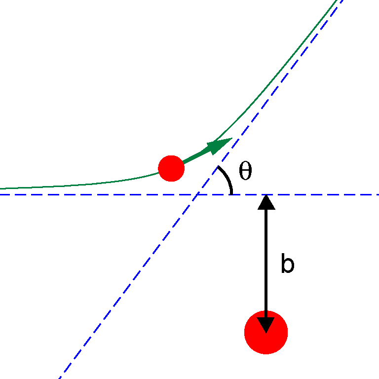 Definition of impact parameter. Solid line is the trajectory for a repulsive potential. The weight of the target particle is much larger than that of the projectile.